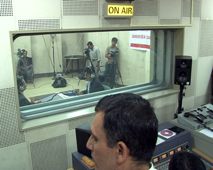 PM Bhattarai during a live talk show.